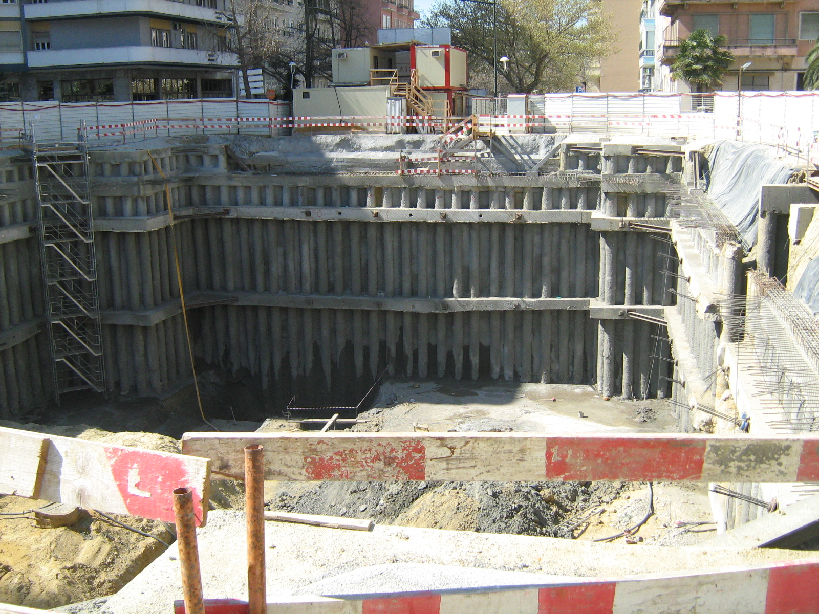 The construction of a bored pile retaining wall in Lisbon, near the alameda campus of Instituto Superior Técnico